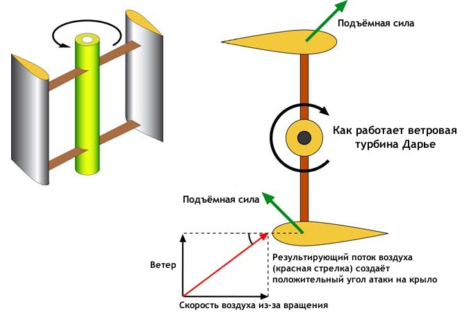 Diagram illustrating how Darrieus wind turbine works.